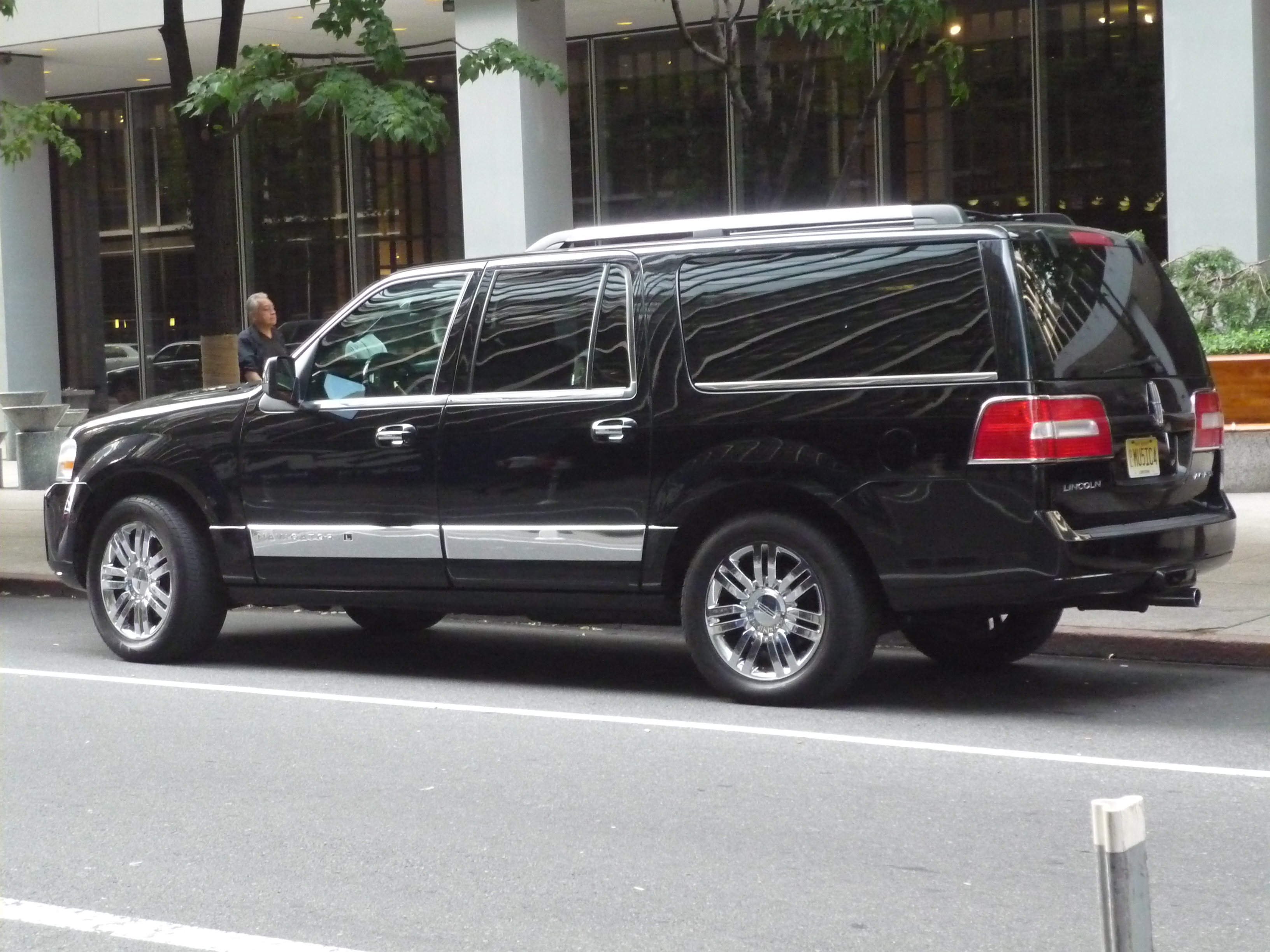 Once a pretty big player in the king-sized luxury SUV market, the Navigator seems to have fallen behind the Escalade and the Yukon Denali; as a result, Lincoln no longer sells as many as it used to. Livery companies still like them well enough, however.